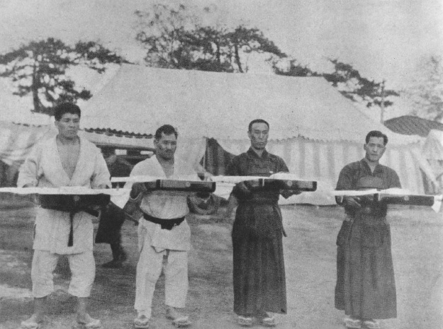 Winners of Shōwa Tenran Jiai in 1929. From left to right : Hisao Kihara (Judo), Tamio Kurihara (Judo), Moriji Mochida (Kendo), Yokoyama (Kendo).